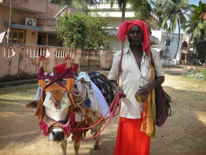 Telugu man with his cow, elaborately decorated for the festival of Makar sankranti.